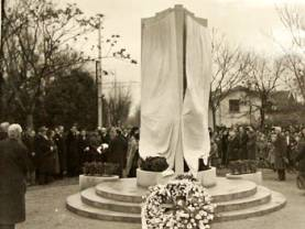 Pushkin Statue in Shanghai